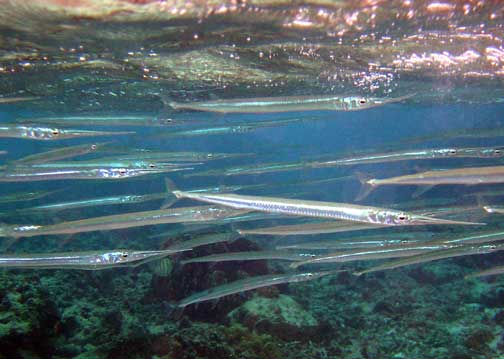 Strongylura incisa. reef needlefish